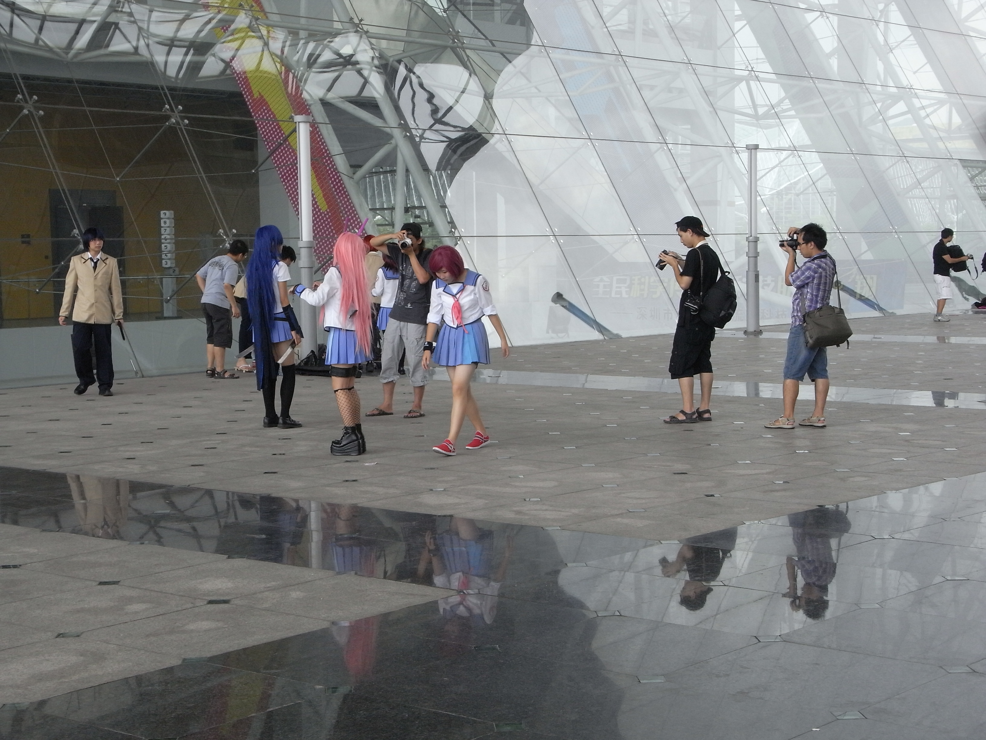 Shenzhen Book City